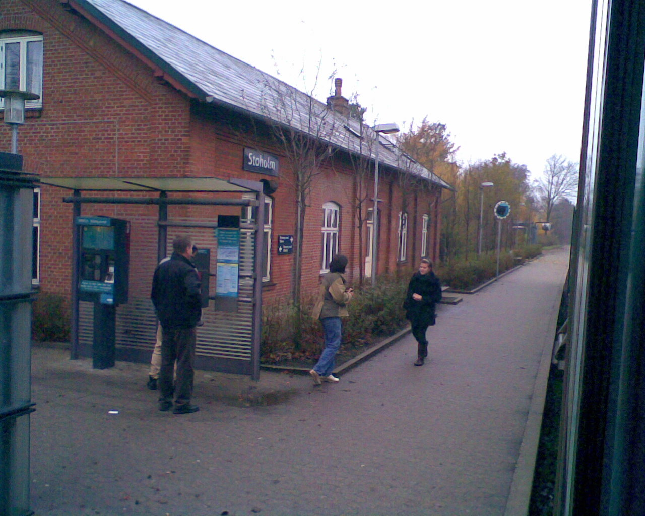 Stoholm Station, Denmark